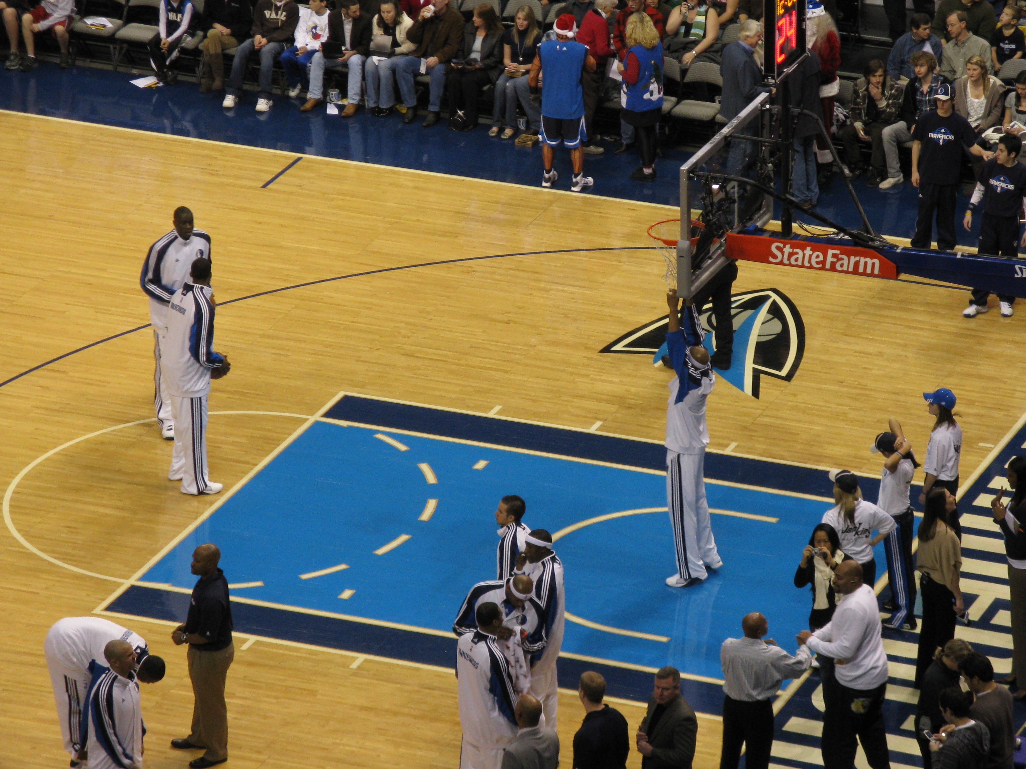 Dallas Mavericks players warm up before a game.